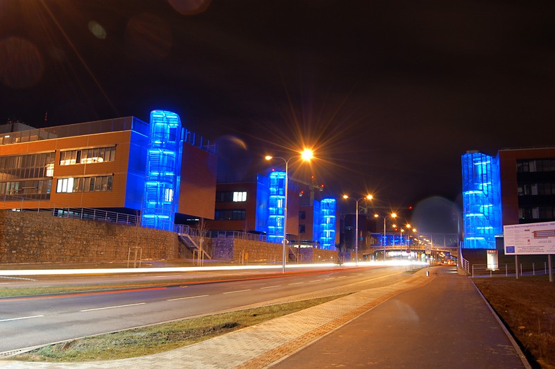 Night photo of University campus Brno - Bohunice from street Kamenice.